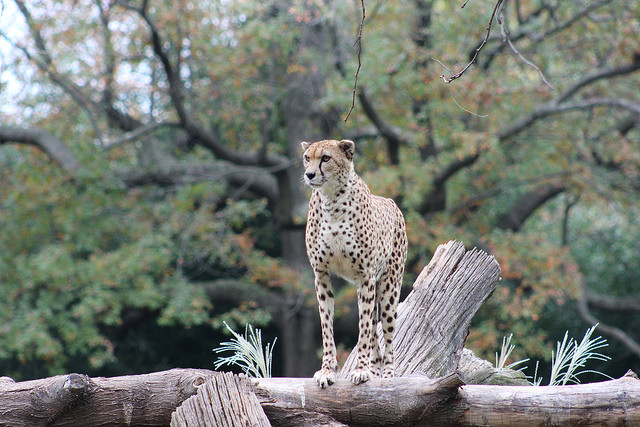 The Cheetah Conservation Station at the National Zoo in Washington, D.C.